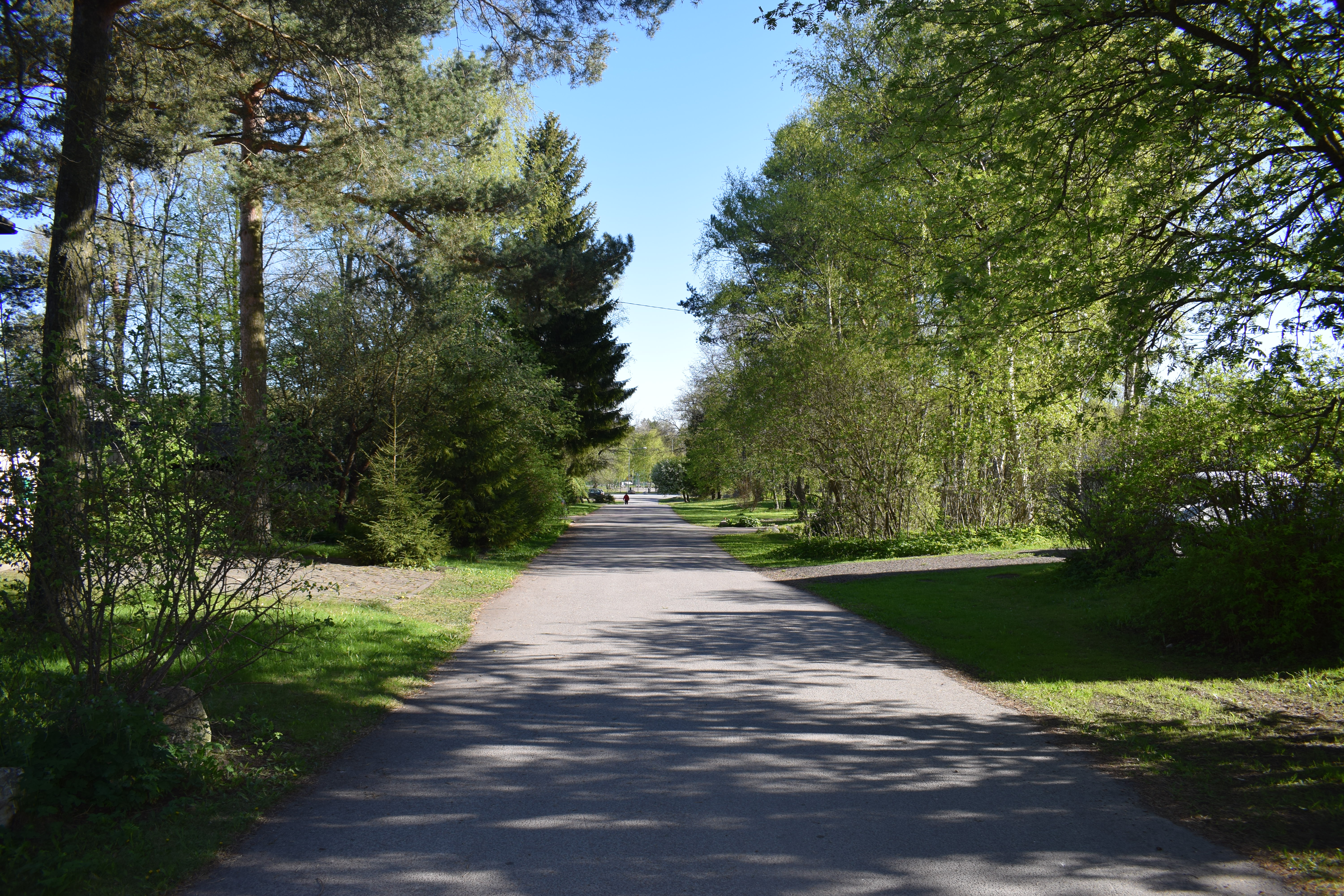 Koldrohu street